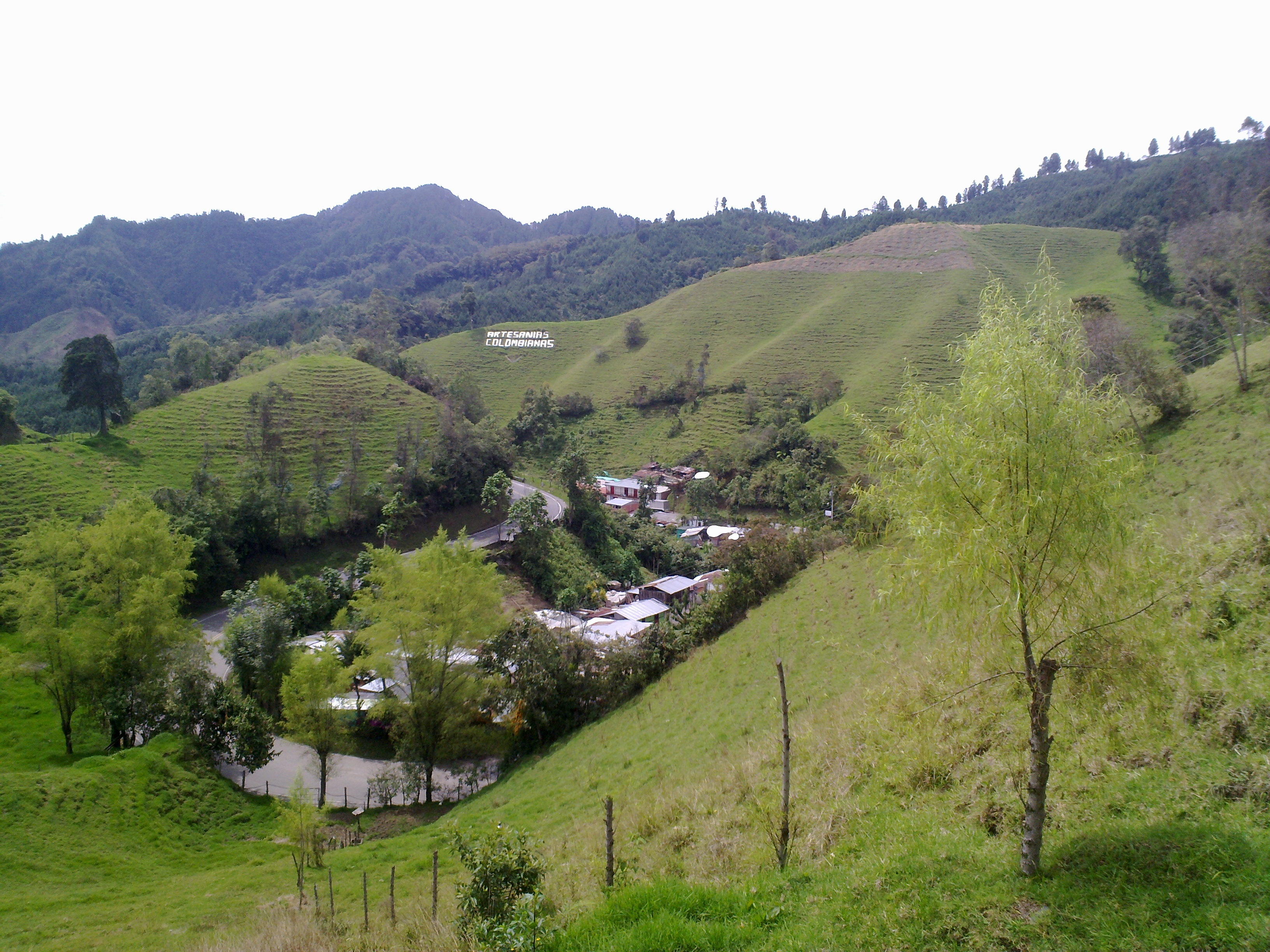 Mesones Tolima